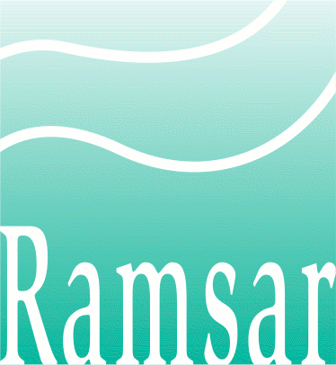 Logo of Ramsar Convention on Wetlands